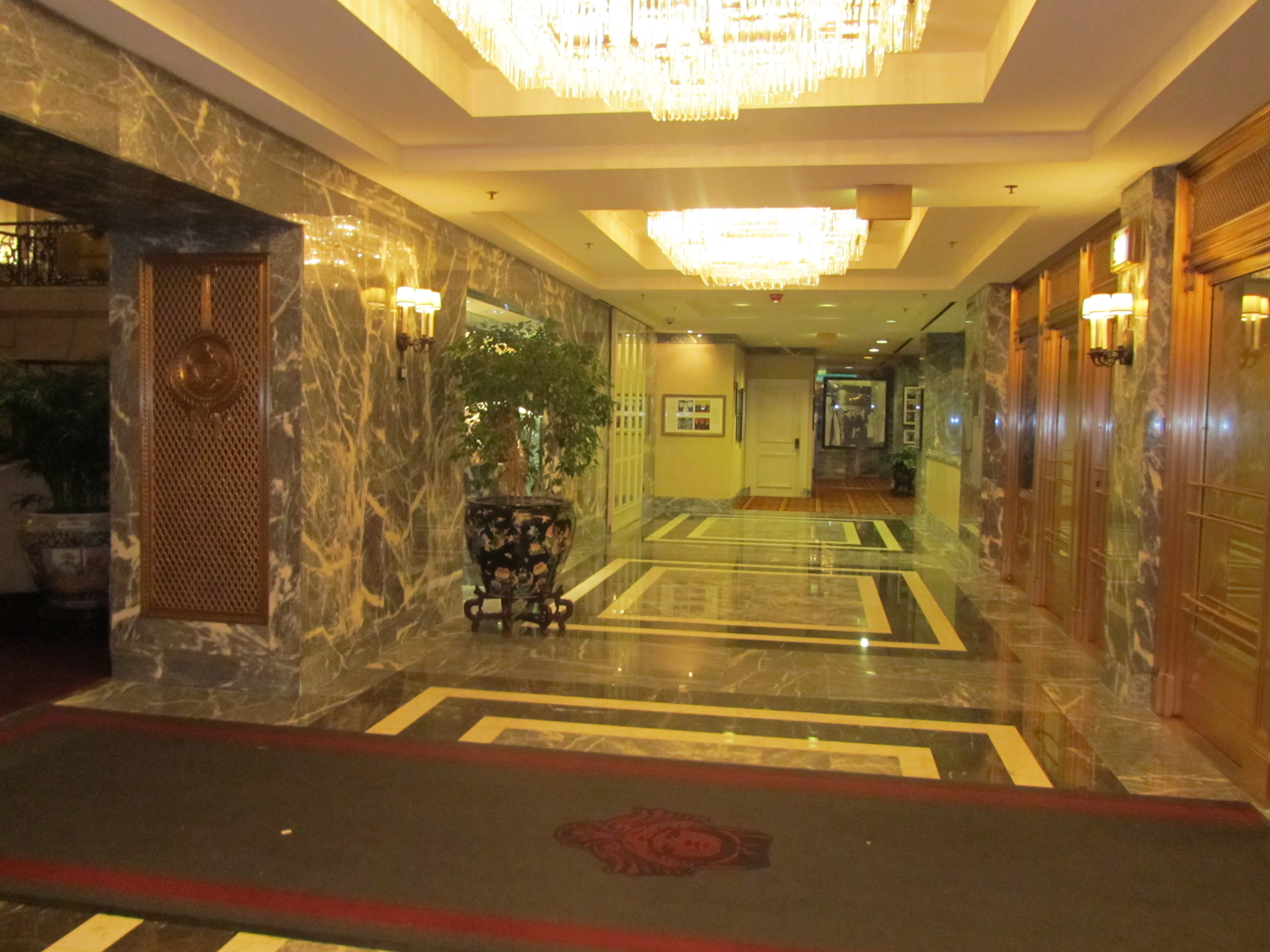 Hilton Hotel Chicago, corridor